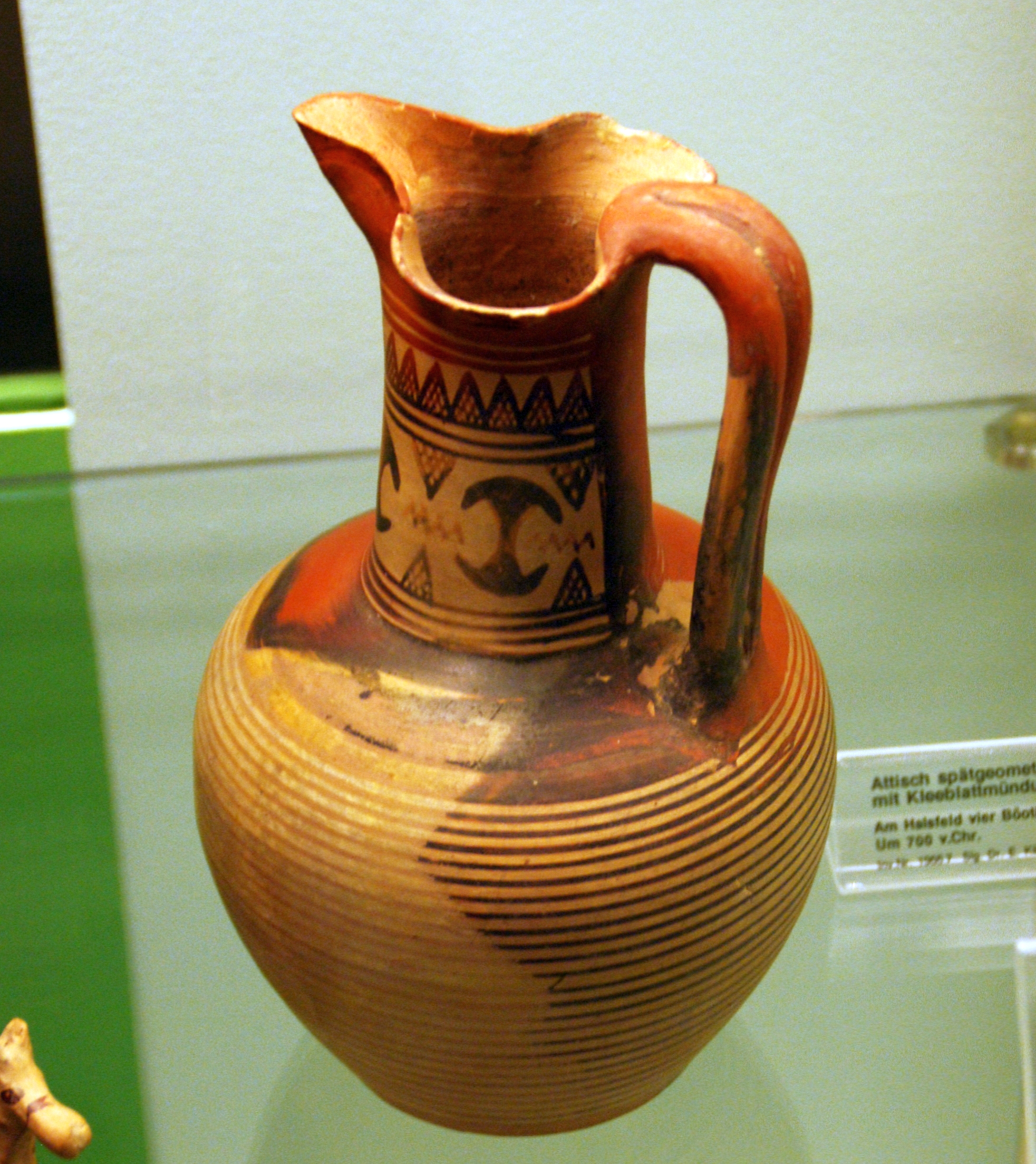 Late geometric attic jug, decorated with geometric pattern and Dipylon shields; clay, about 700 BC; Museum August Kestner Hanover; Inventary number 1966.7.